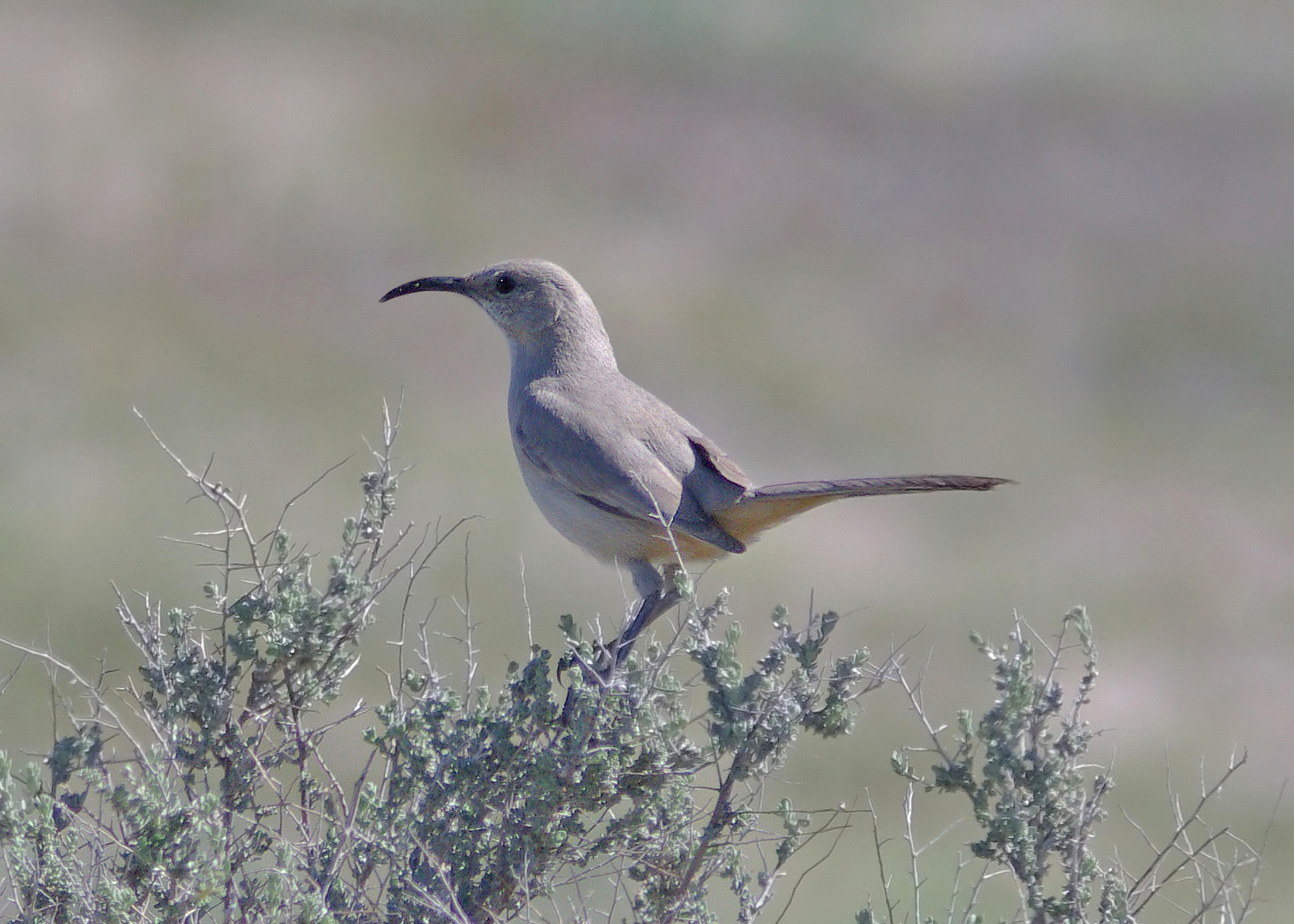 Le Conte's Thrasher (Toxostoma leconte), Van Metre Rd, Carrizo Plain Nat. Monument, San Luis Obispo Co., California, USA